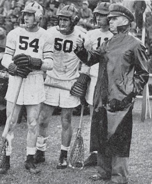 United States Military Academy men's lacrosse head coach F. Morris Touchstone gives instructions to some of his players.